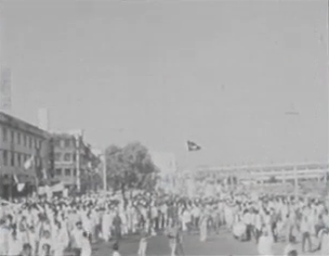 Public coming to the streets of Lahore (the provincial capital) raising slogans in favour of Pakistan Army after declaration of War by President Ayub khan in September 1965.